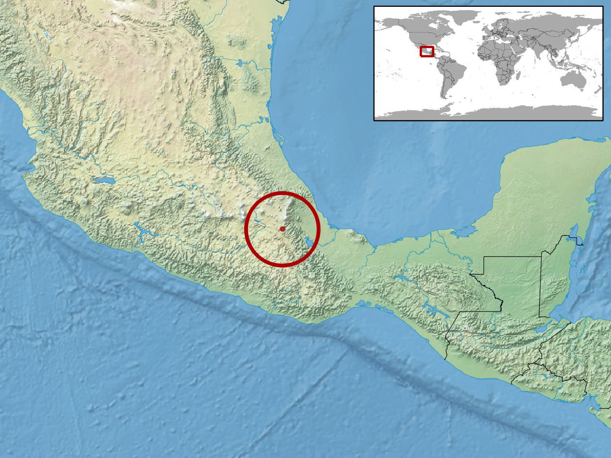 geographic distribution of Xenosaurus rectocollaris (Native: Mexico)